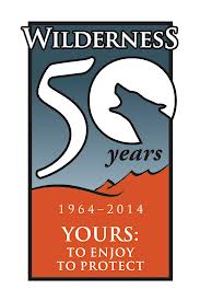 Wilderness50 is a growing coalition of federal agencies, non-profit organizations, academic institutions, and other wilderness user groups whose purpose is to plan and eventually implement local, regional, and national events and projects, specifically designed to elevate the profile of wilderness during the 50th anniversary celebration.